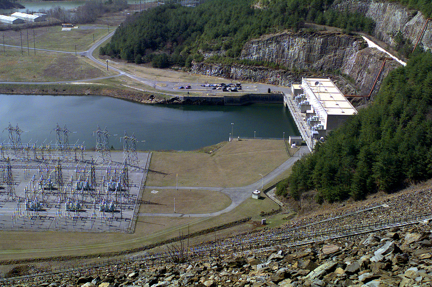 Aerial view of the hydroelectric powerhouse and switchyard at Carters Dam on the Coosawattee River in Murray County, Georgia, USA. The U.S. Army Corps of Engineers constructed the dam in 1977 for flood control and hydroelectric power generation. The dam impounds Carters Lake in the mountains of northwestern Georgia. Coordinates: 34°36′47.97″N 84°40′16.48″W / 34.613325°N 84.6712444°W